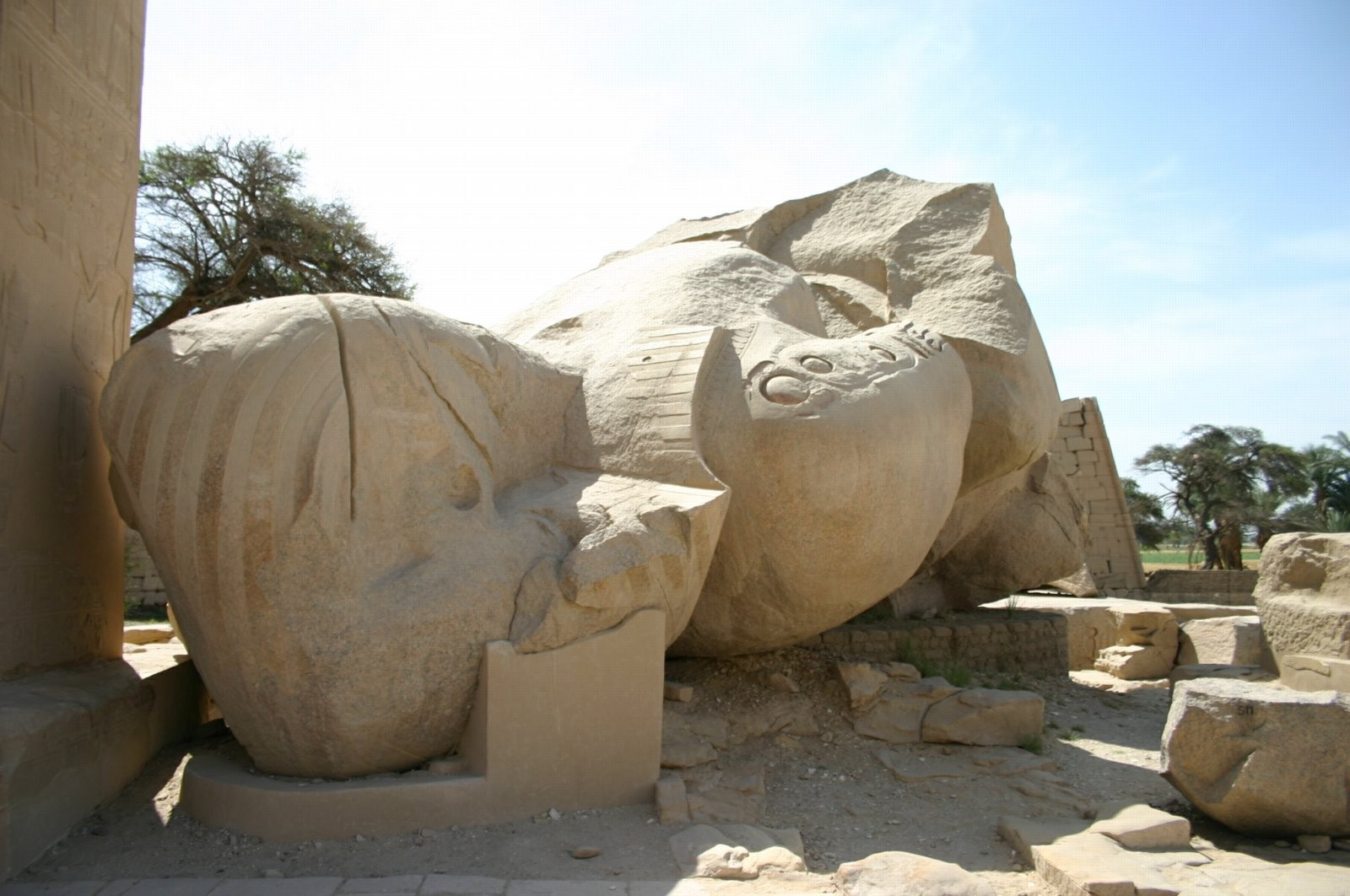 Temple of a million years of Rameses II - Ozymandias statue, Luxor, Egypt